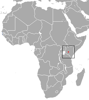 Aberdare Mole Shrew (Surdisorex norae) range, along with national borders